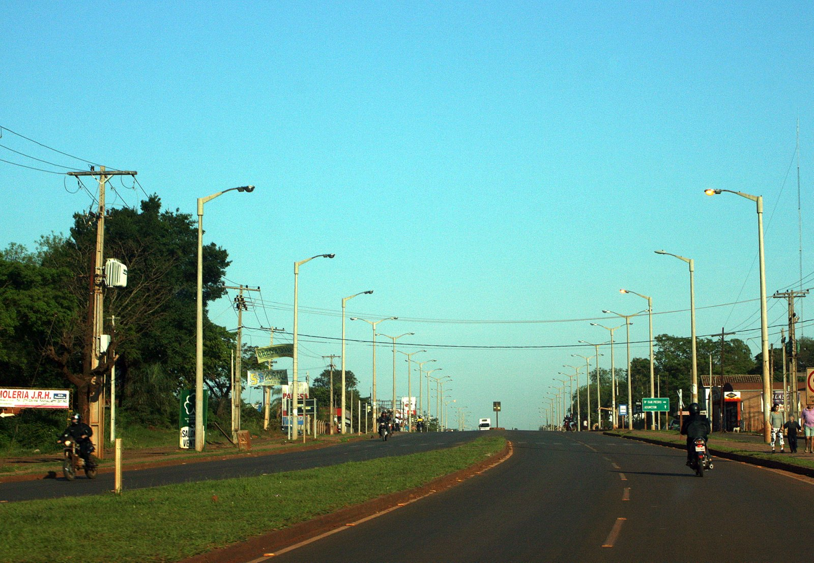 Route 1 accessing Encarnación, Paraguay.